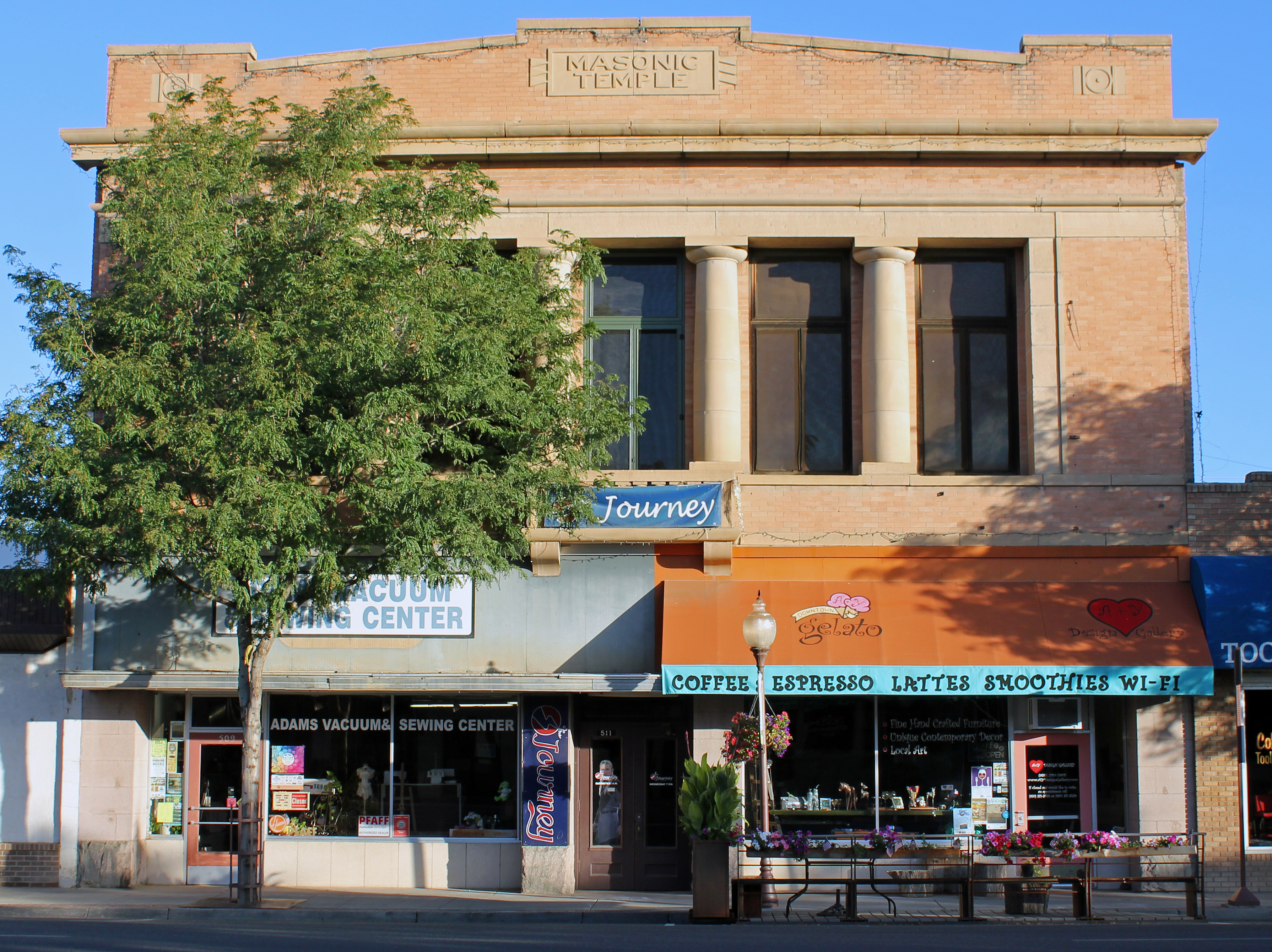 The Montrose Masonic Temple, Lodge No. 63, located at 509–513 East Main Street in Montrose, Colorado. The property, now used chiefly as shops, is listed on the National Register of Historic Places. The property is also known as the Adams Vacuum & Sewing Building.